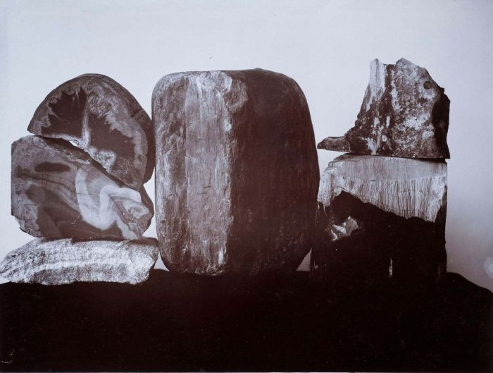 Petrified wood